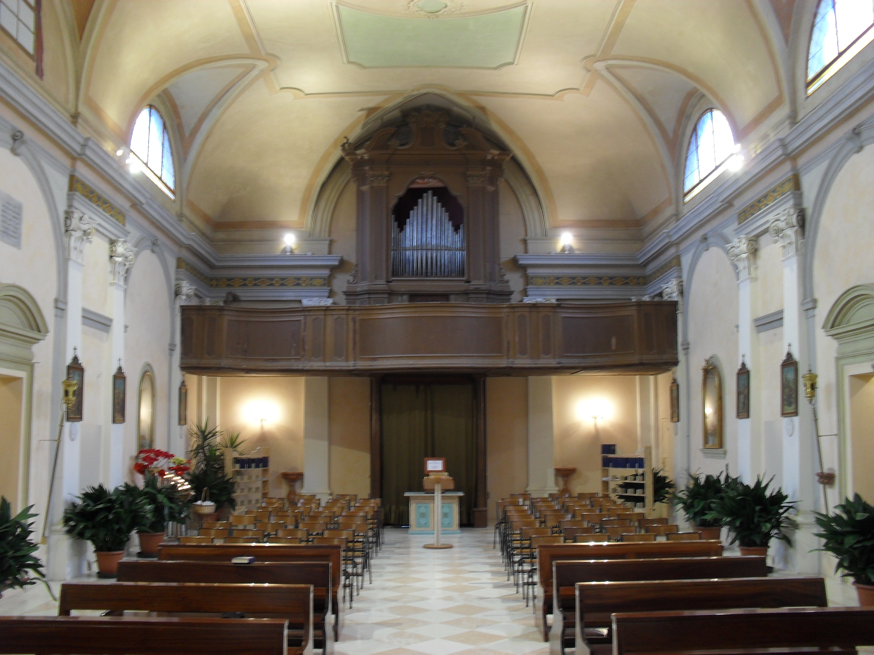 Callido's pipe organ, Church of Santa Margherita, Presciane - San Bellino